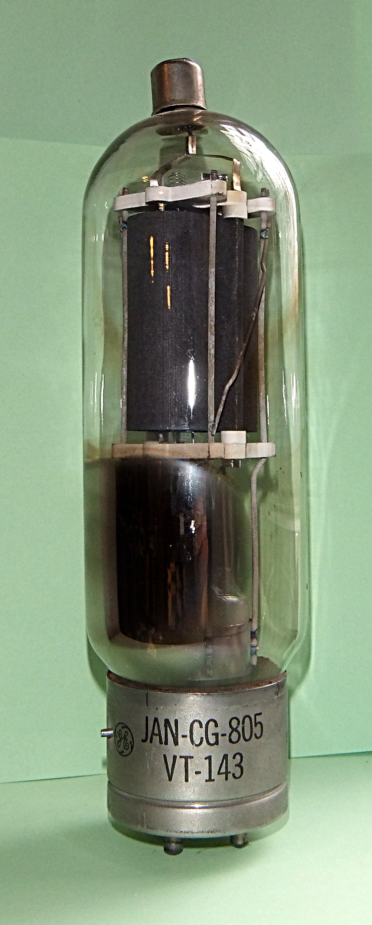 Transmitter triode 805.